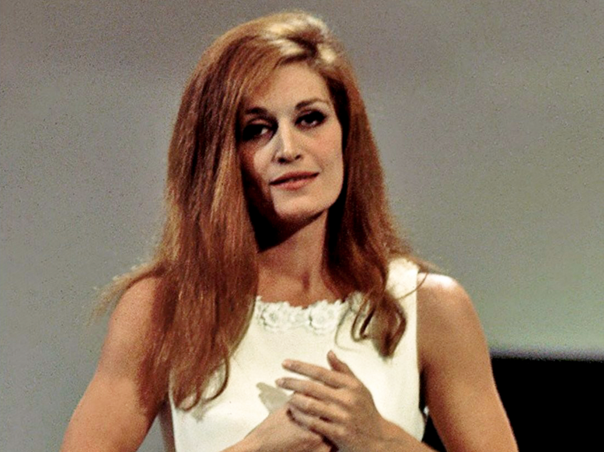 Dalida singing "Dan dan dan" during popular Italian TV show "Canzonissima" in 1967.